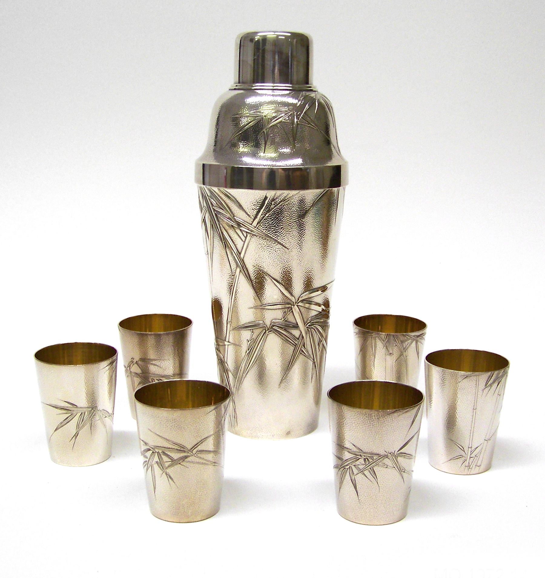 Franklin D. Roosevelt Presidential Library and Museum: "Silver cocktail set with an oriental theme. Set consists of a cocktail shaker and six cups. Each piece has bamboo motif and Chinese or Japanese characters appear on the bottoms. Pieces are in a fitted maroon leather box with blue velvet lining. According to Anna Roosevelt Halsted, FDR used this set both at the White House, and at Hyde Park. FDR had a long-standing practice of hosting an evening cocktail hour in the White House residence during his presidency. The cocktail hour was a time when he could cast aside the burdens of office at the end of the day and relax with close friends and/or family. Discussion of politics or government policy was banned. FDR always mixed the drinks at this event".